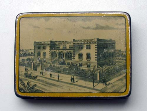 Kyriazi Frères (cigarettes factory). The original factory was located in a purpose-built building in the European quarter of Cairo, and specifically, in the Souk El Tewfikia. This area was a mix of residential, commercial and diplomatic establishments. The red and beige building and its garden occupied 3000 square meters (32,200 square feet). The Kyriazi Freres factory was, and still is a famous landmark building. The Cairo Times write that "... the place is just as lively today as it was during Kyriazi Pasha's days".